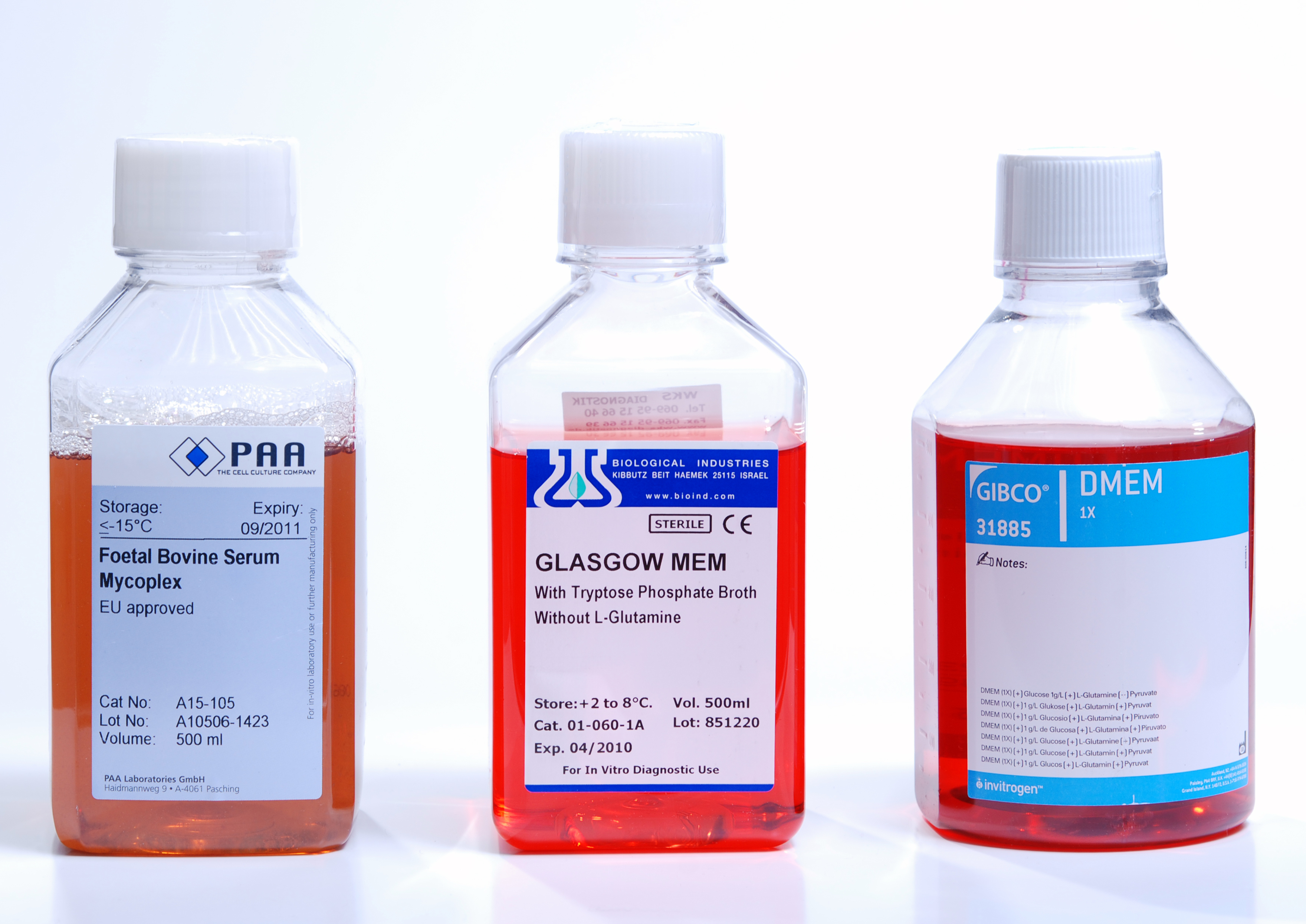 Different types of cell culture media